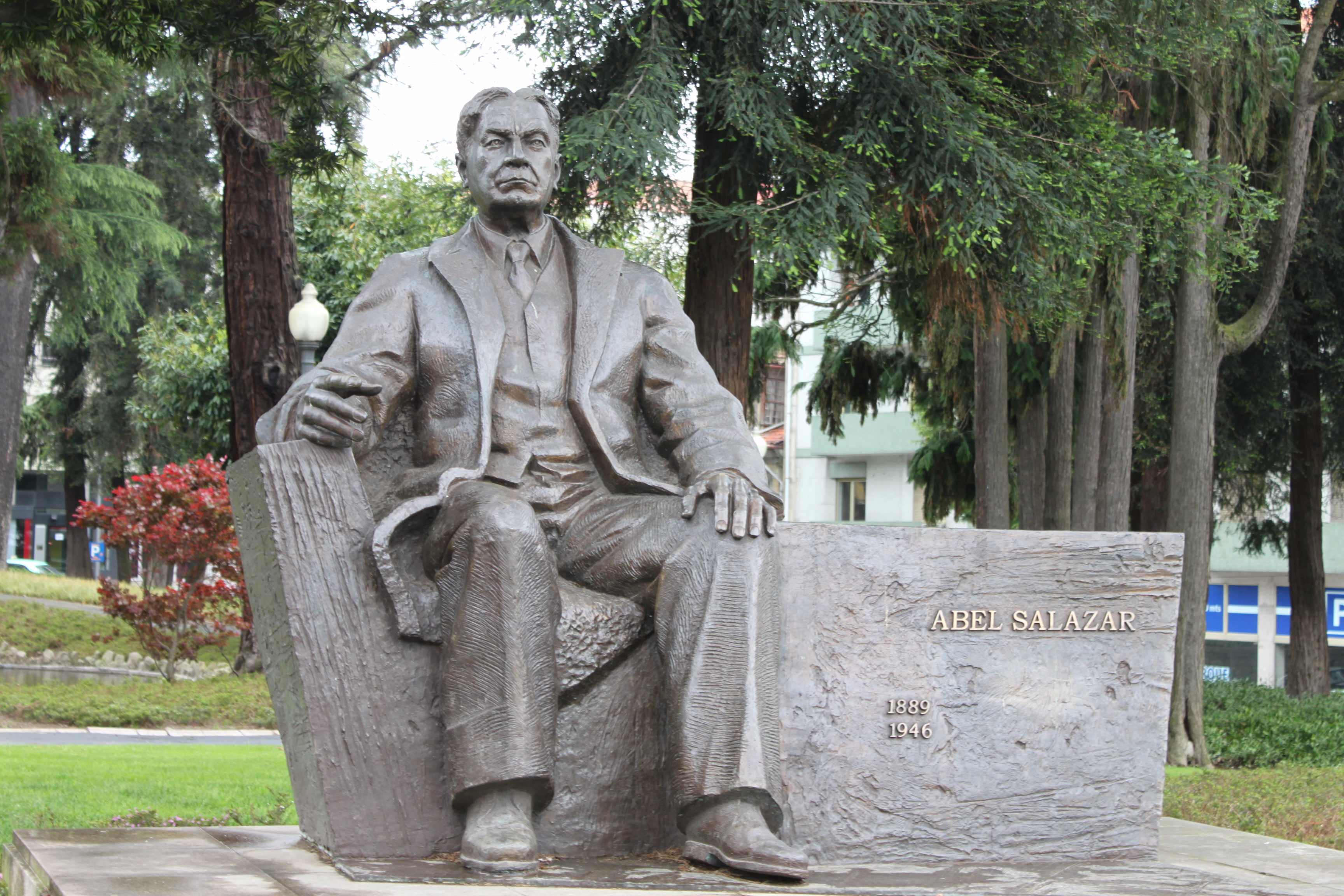 The Statue of Abel Salazar